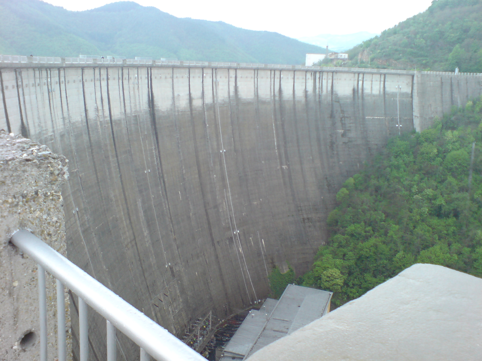 The wall of Kardzhali Dam in Bulgaria